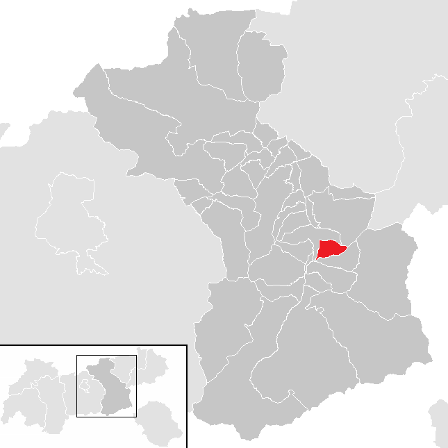 District Schwaz